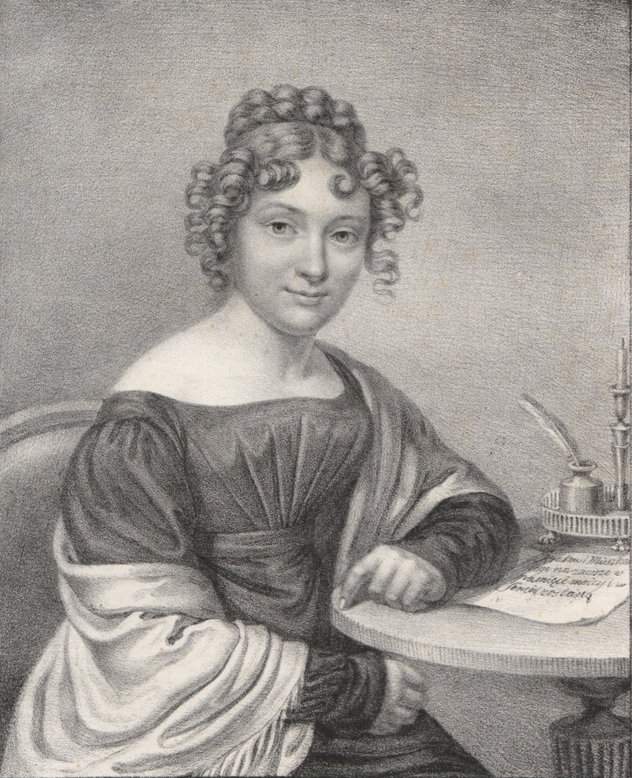 Klementyna Hoffmanowa (born Klementyna Tańska; 1798 – 1845), Polish popular literary writer, translator, editor, and one of Poland's first writers of children's literature. She co-organized and chaired the Patriotic Charity Association. She was the first woman in Poland to support herself from writing and teaching, and considered herself primarily a writer A lithograph, 22,9x18,5cm.